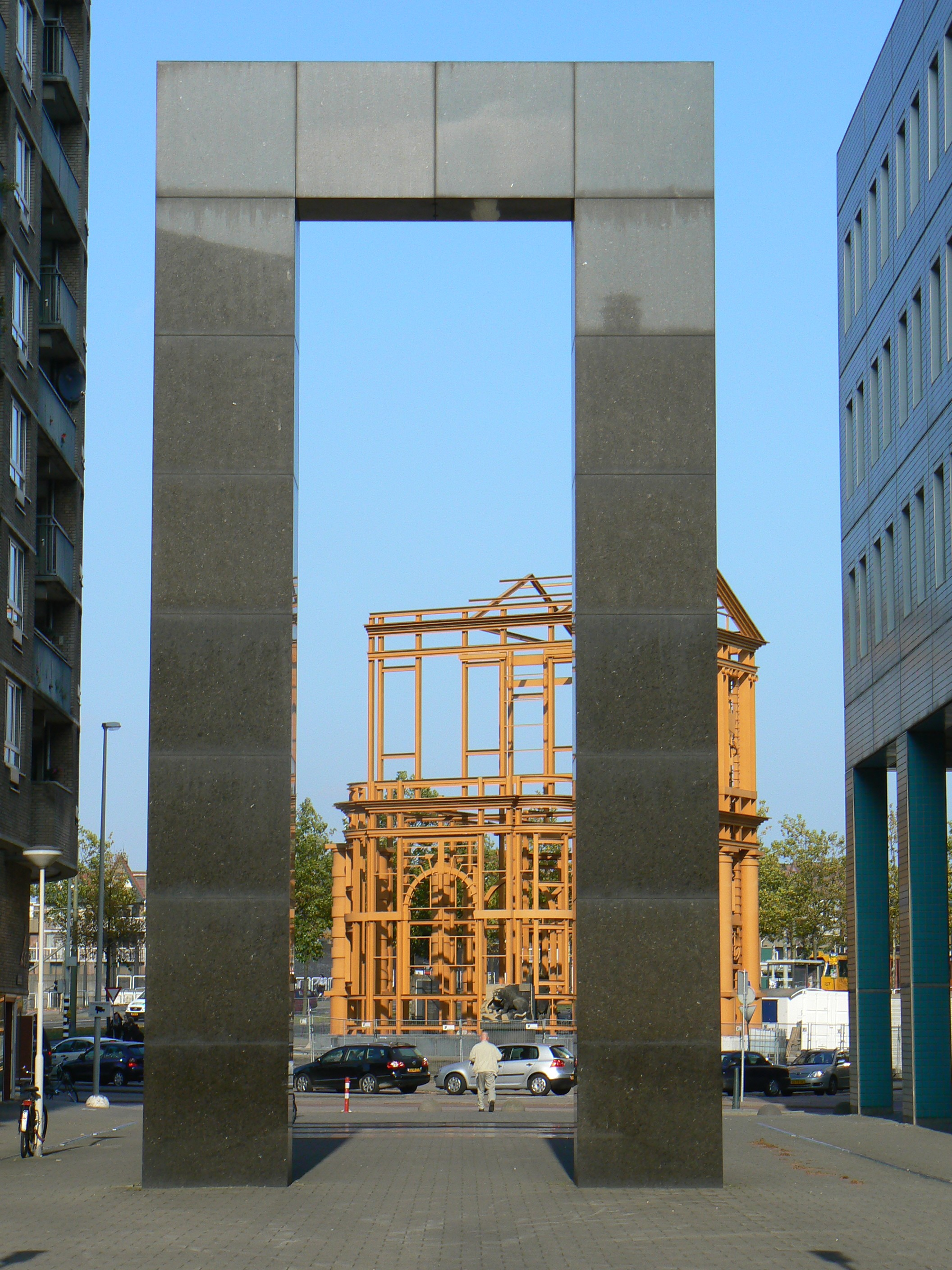 sculpture Tor und Stele (1994) by Günther Forg in Rotterdam/The Netherlands